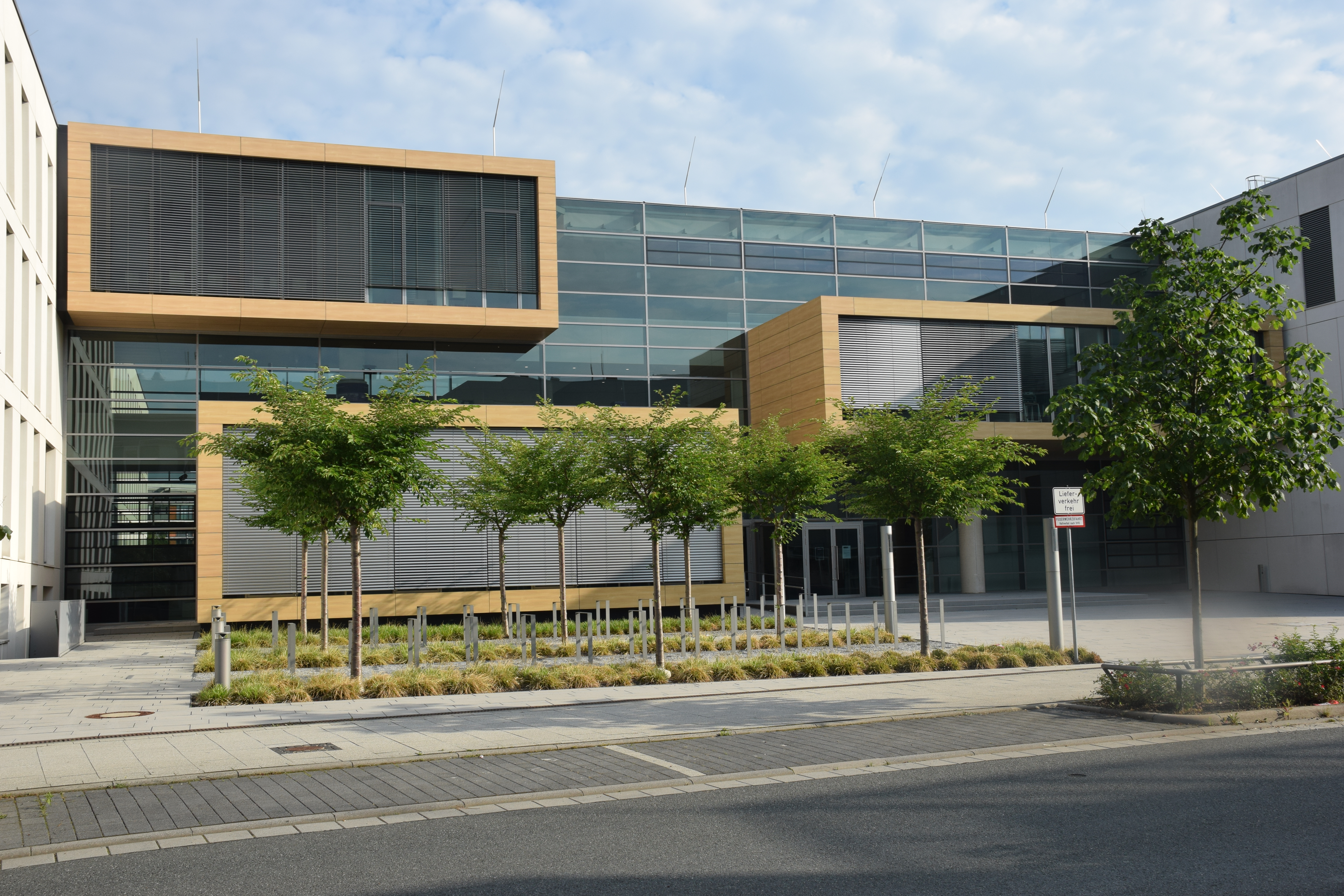 Max Planck Institute for Brain Research in June 2018.